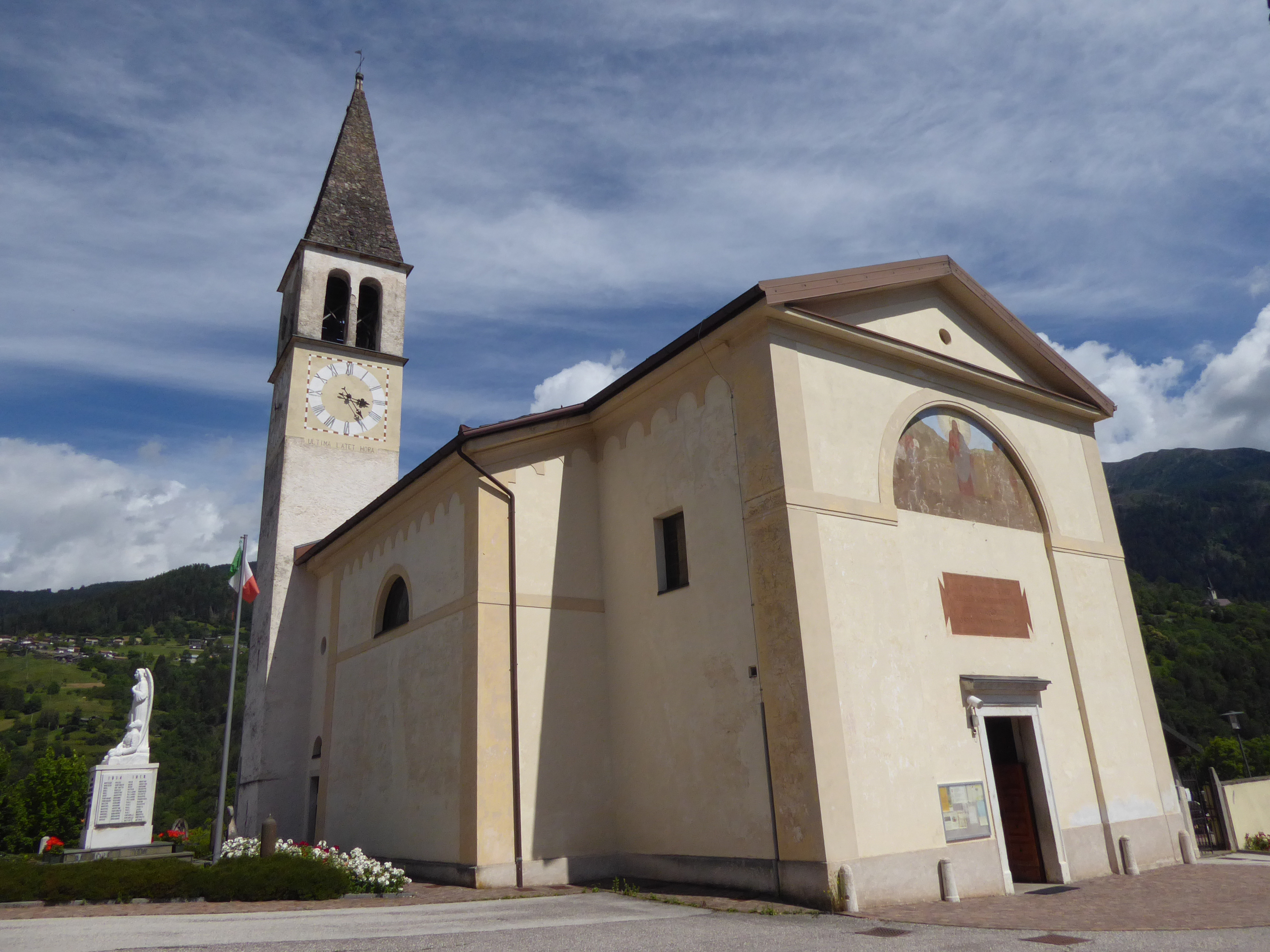 Sant'Orsola (Sant'Orsola Terme, Trentino, Italy) - Saint Ursula church